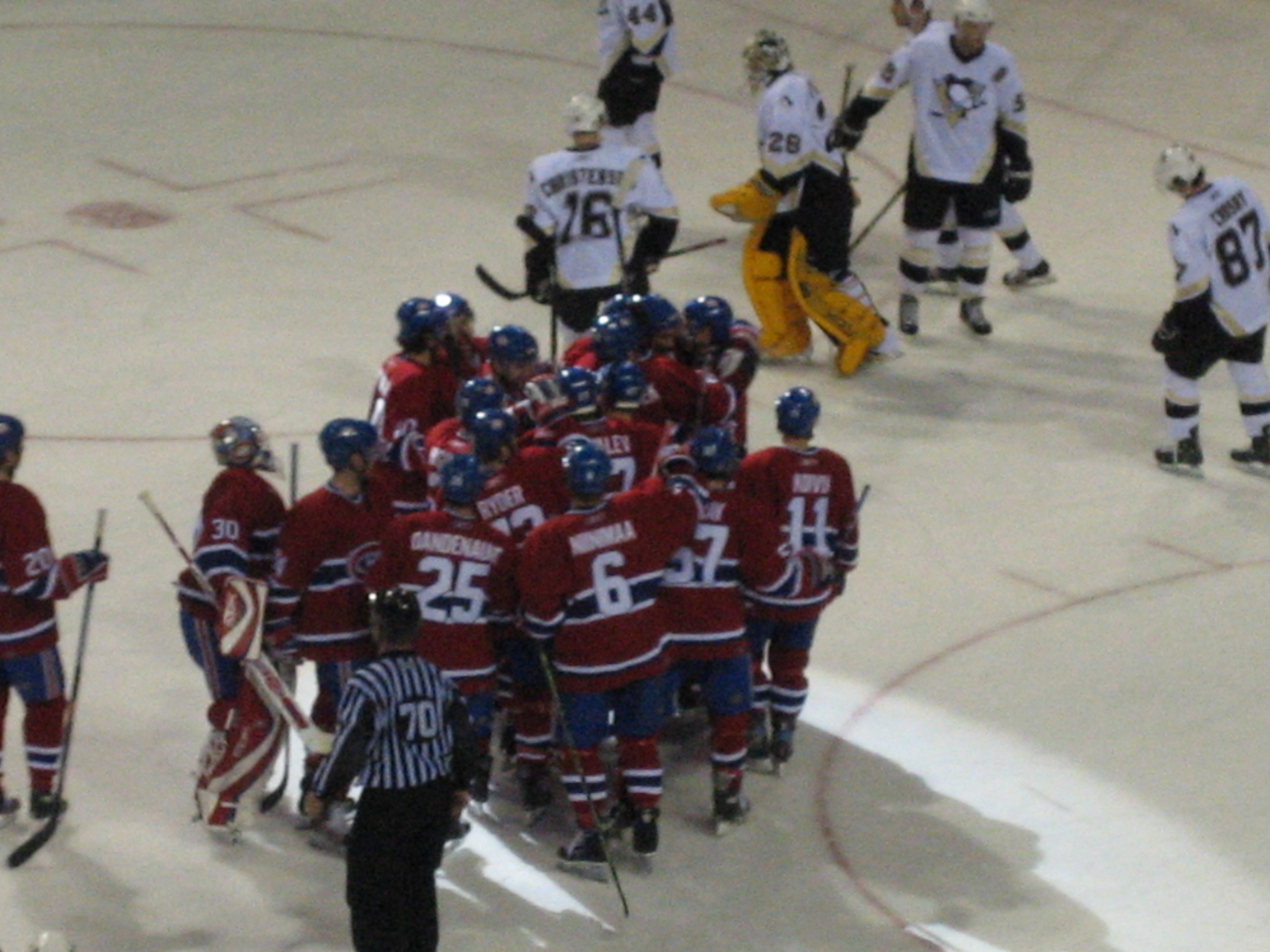 During the Penguins game on Feb 4th 2007